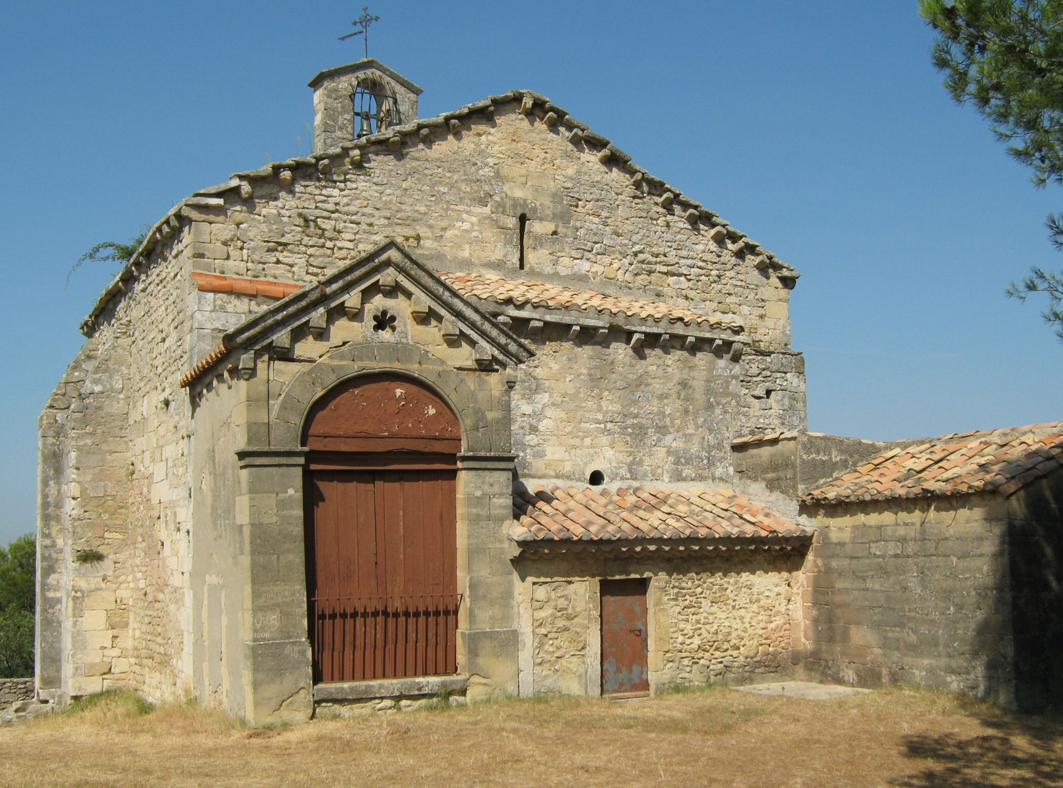 Chapel named "Notre-Dame du Château" located at St-Etienne-du-Grès (13103)